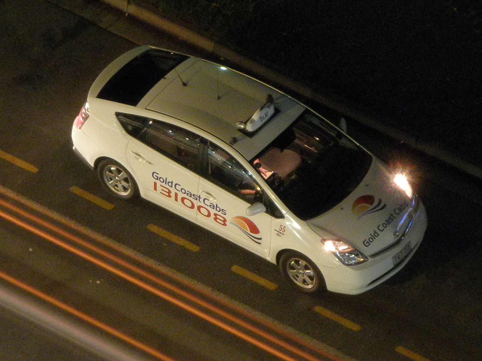 Toyota Prius gold coast taxicab